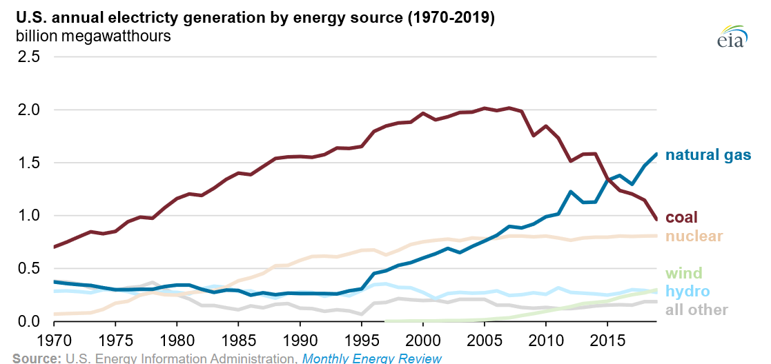 Output from the U.S. coal-fired generating fleet dropped to 966,000 gigawatthours (GWh) in 2019, the lowest level since 1976. The decline in 2019 coal generation levels was the largest percentage decline in history (16%) and second-largest in absolute terms (240,000 GWh). May 11, 2020